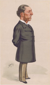 Caricature of Mr F Greenwood. Caption read "He created The Pall Mall Gazette".